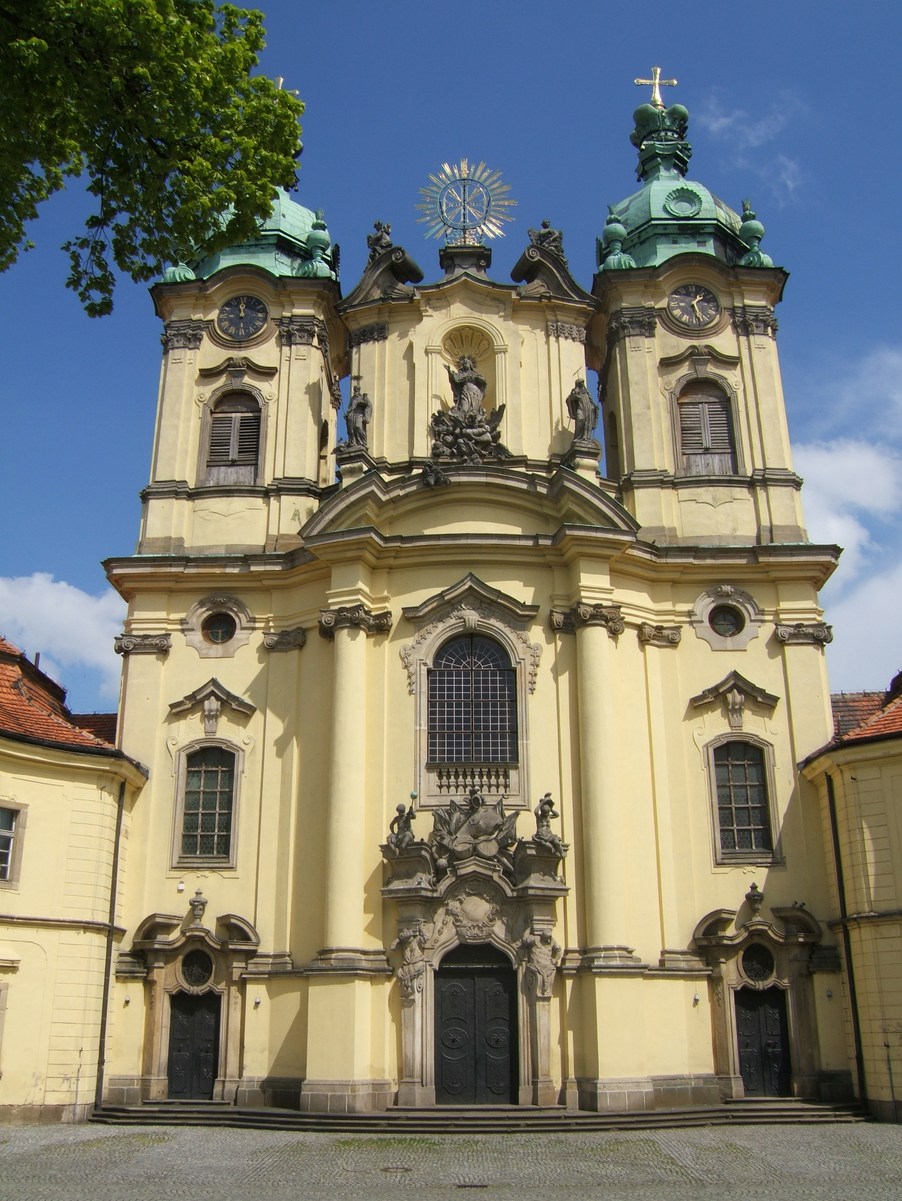 10The Fassade of the baroque Jadwiga church in Legnickie Pole, seen from western direction. The builder was the famous Kilian Ignaz Dientzenhofer and erected this building from 1727-1731. On the roof of the twin towers, there are crowns of the silesian dukes.